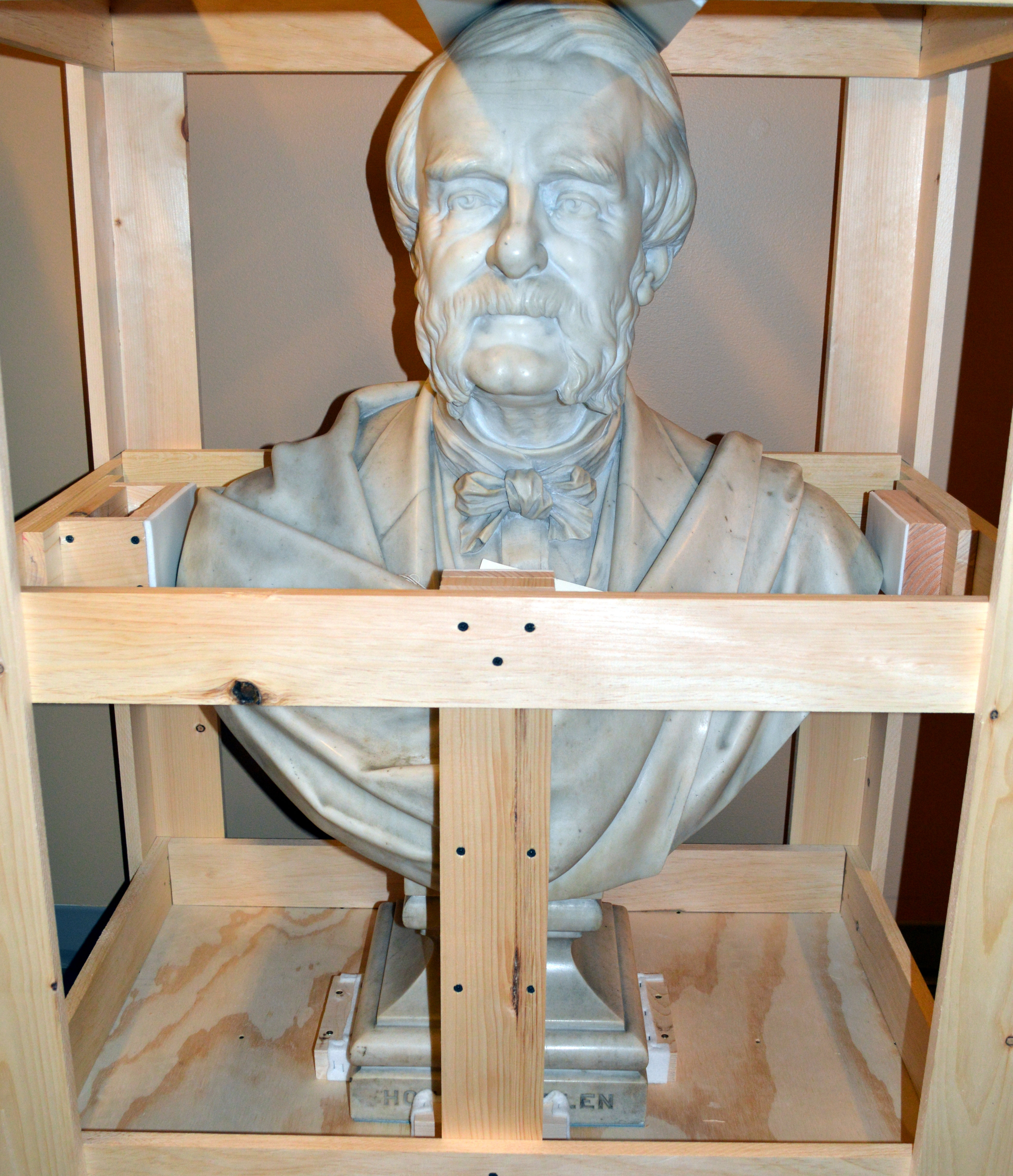 Marble bust of Thomas Allen by sculptor Howard S. Kretschmar. Thomas Allen was a lawyer and president of the Pacific and Iron Mountain railroads. He served in the Missouri Senate from 1850-1854. Title: Marble Bust of Thomas Allen